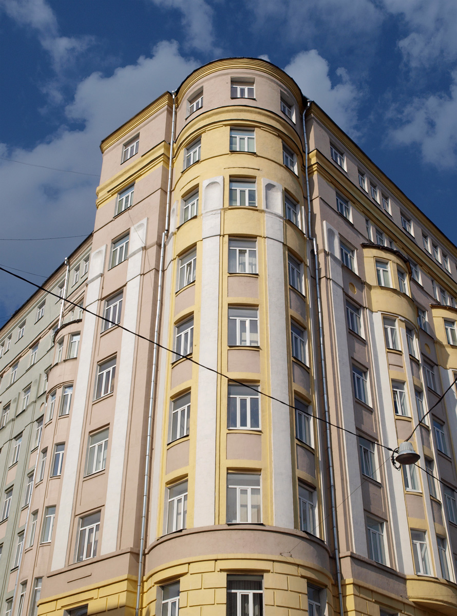 Malaya Pirogovskaya Street, Moscow - student halls of the Sechenov Moscow Medical Academy. Looks like stalinist architecture but has been built during World War One - one of the early skyscrapers.